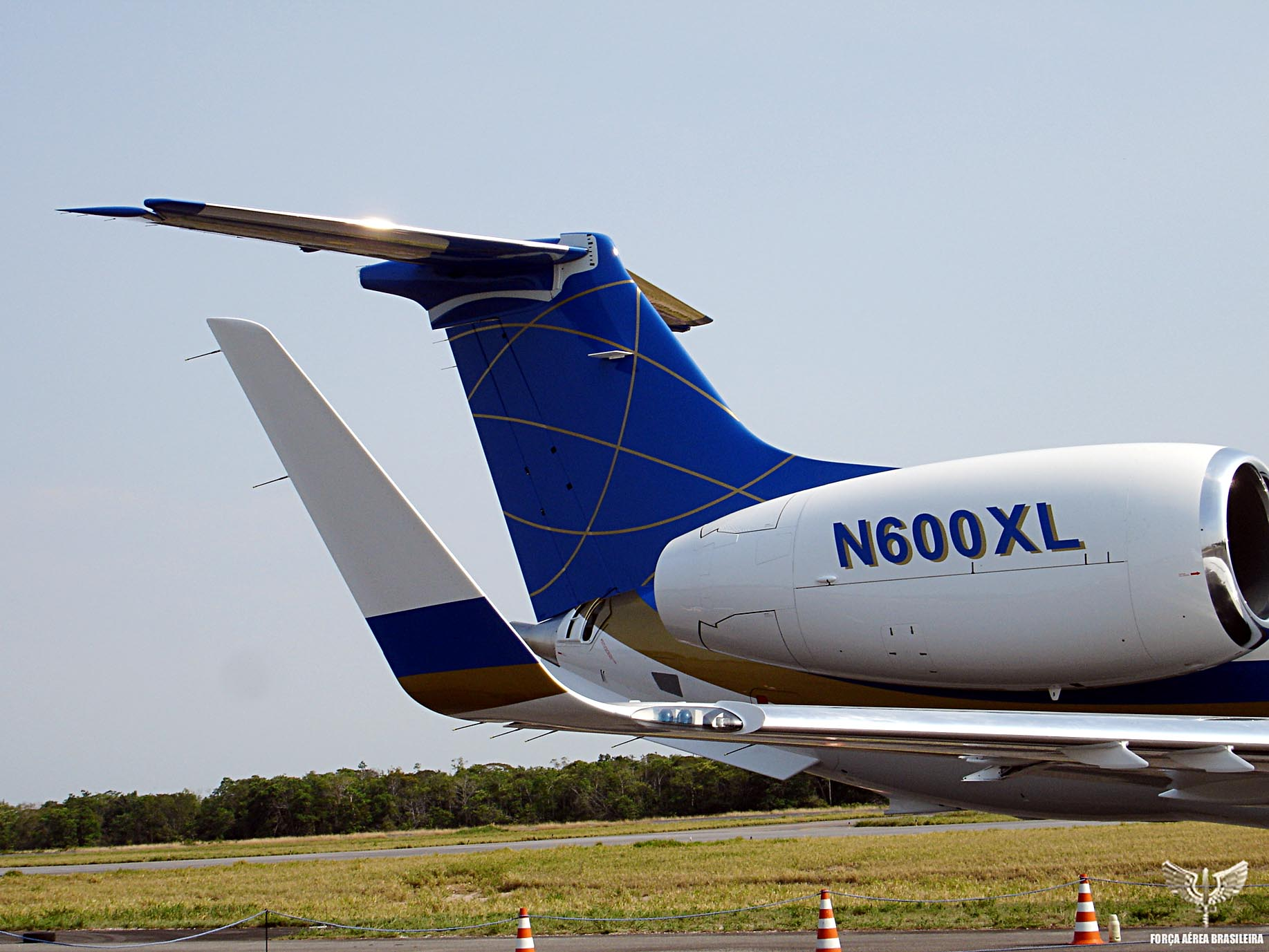 Damaged Embraer Legacy 600 aircraft, at Brigadeiro Velloso Air Force Base, Pará, Brazil.